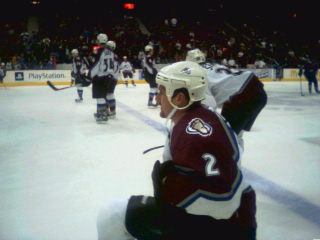 Ken Klee warming up at GM Place before a game against the Vancouver Canucks on December 2, 2006. Photo taken by a camera phone.